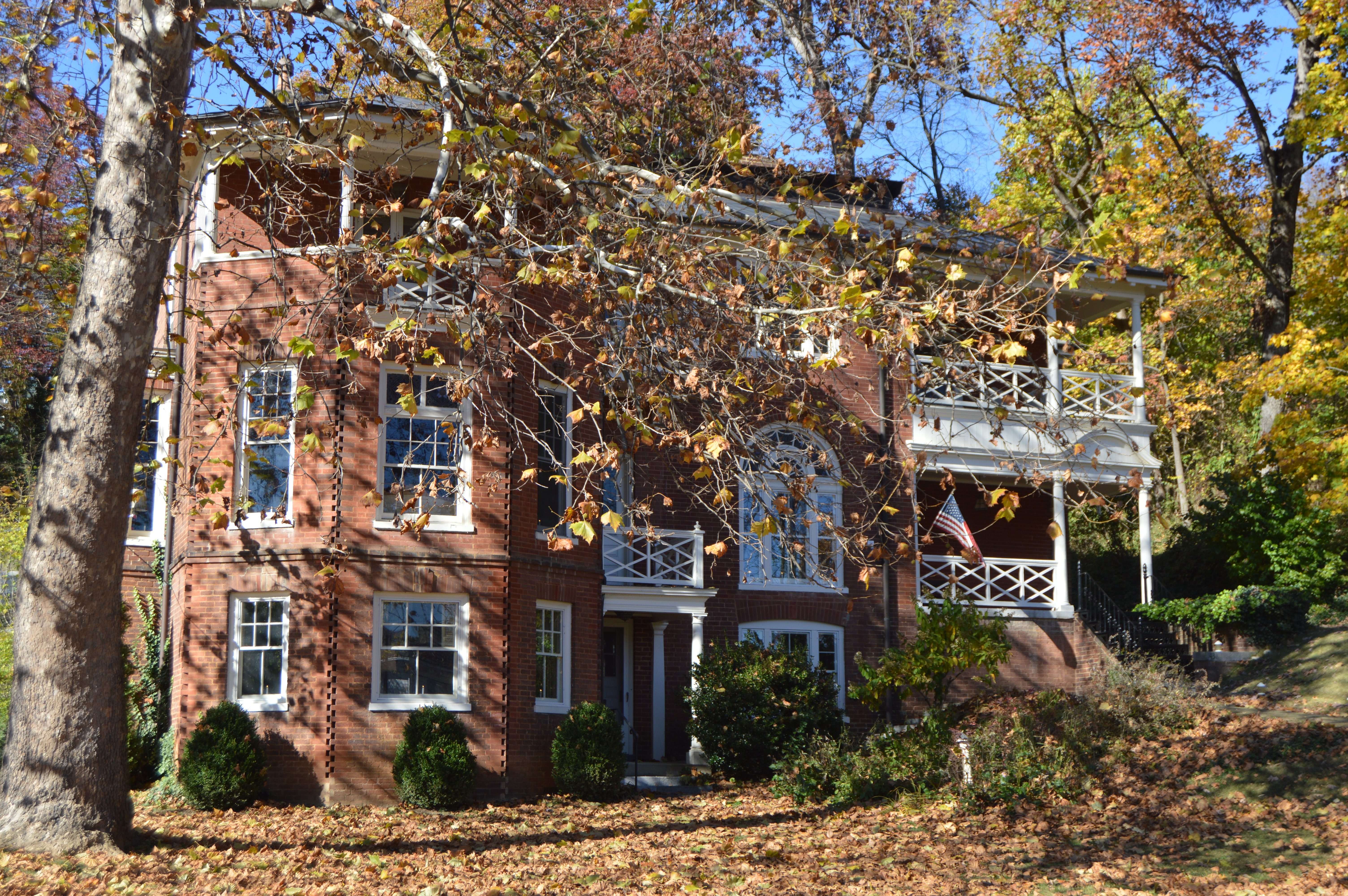 Front of The Oaks, located at 437 E. Beverley Street in Staunton, Virginia, United States. Built in 1888, it is listed on the National Register of Historic Places, and it is part of a Register-listed historic district, the Gospel Hill Historic District.